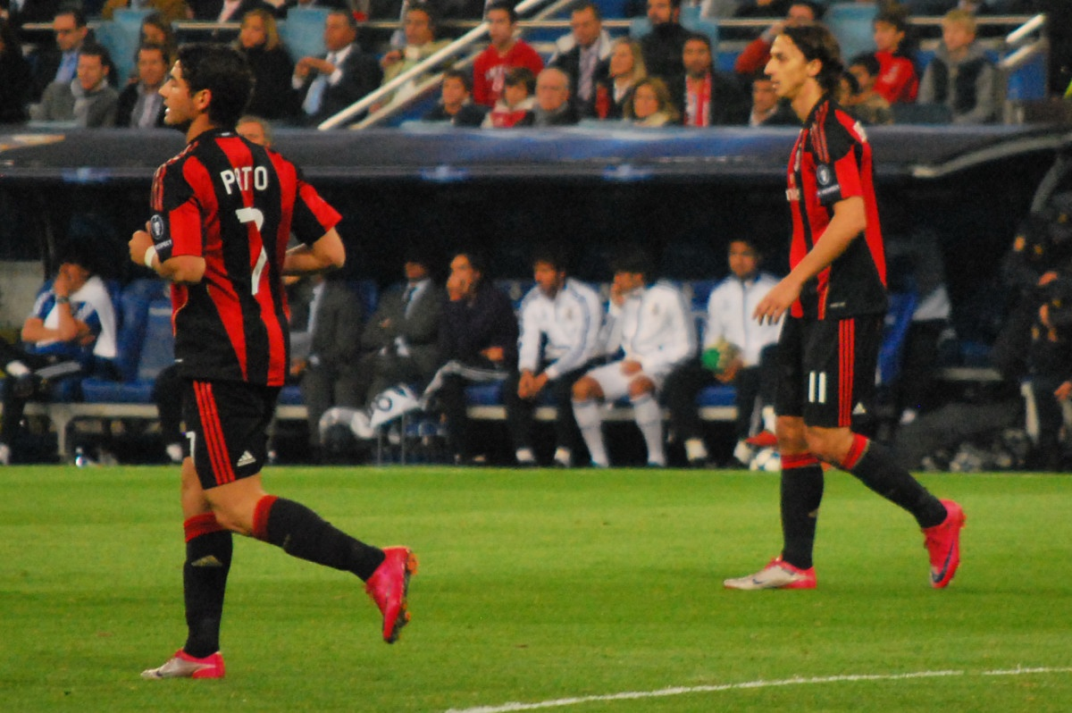 Alexandre Pato and Zlatan Ibrahimović during Real Madrid CF-AC Milan, 2010–11 UEFA Champions League